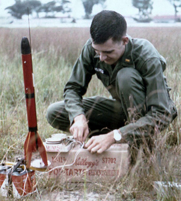 Forrest Mims preparing a model rocket for launch at an old horse racing track near Saigon in 1967. This was taken by an US Air Force photographer for an article that appeared in the October 19, 1967 Pacific Stars and Stripes newspaper. Another picture from that session was used in the article.